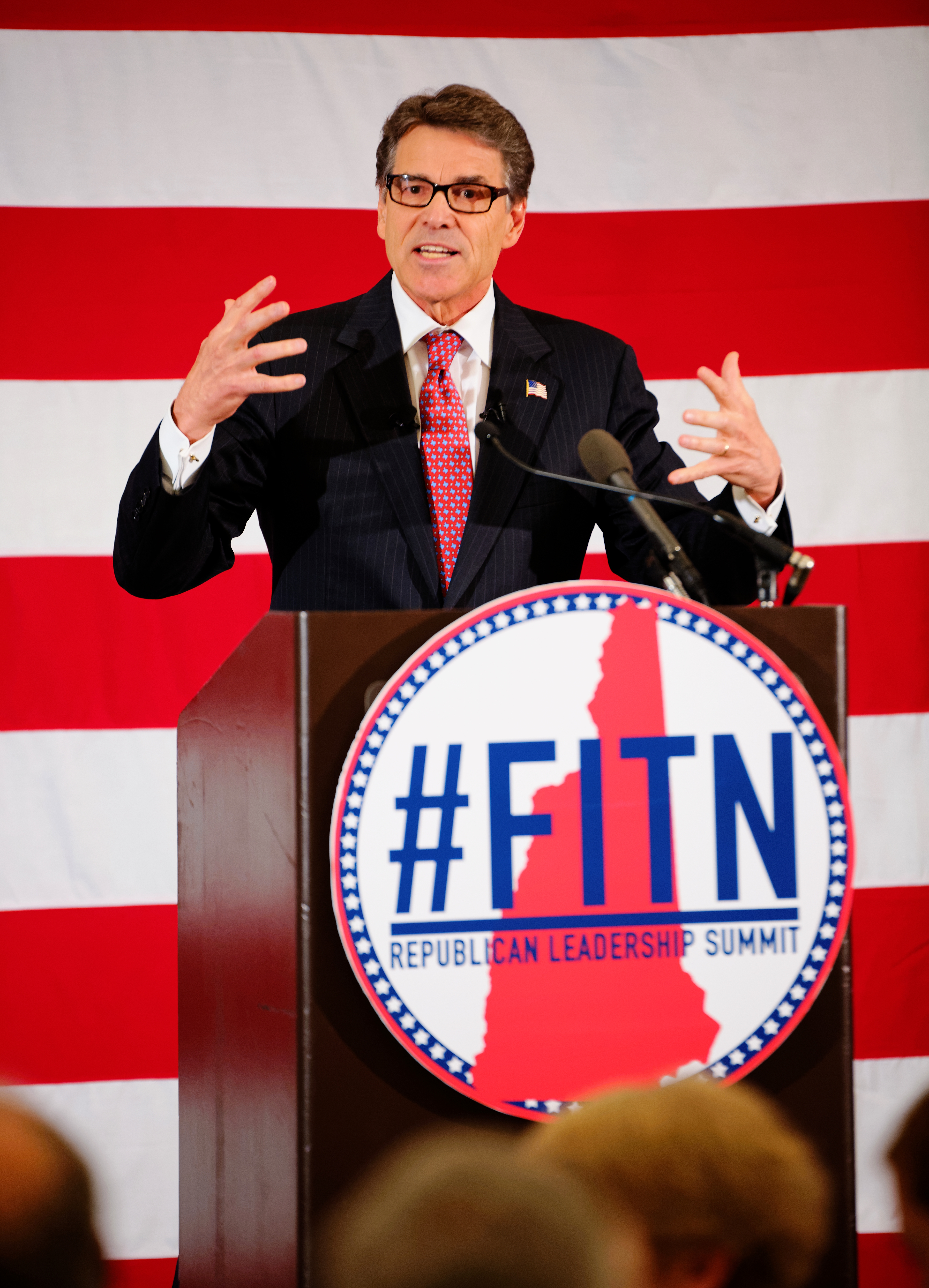 in Nashua, New Hampshire